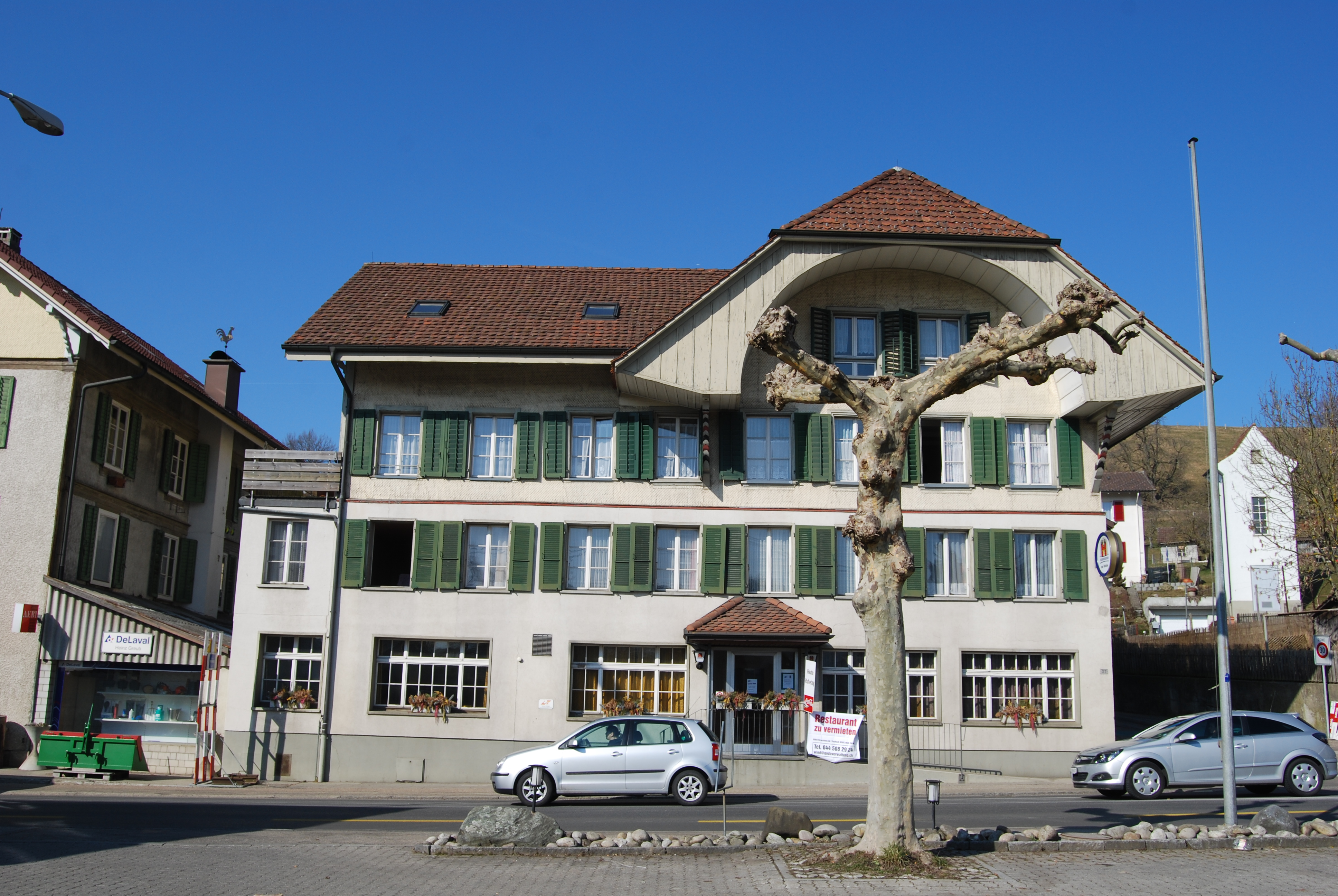 Huttwil, canton of Bern, SwitzerlandEsperanto: Huttwil, Kantono Berno, Svislando